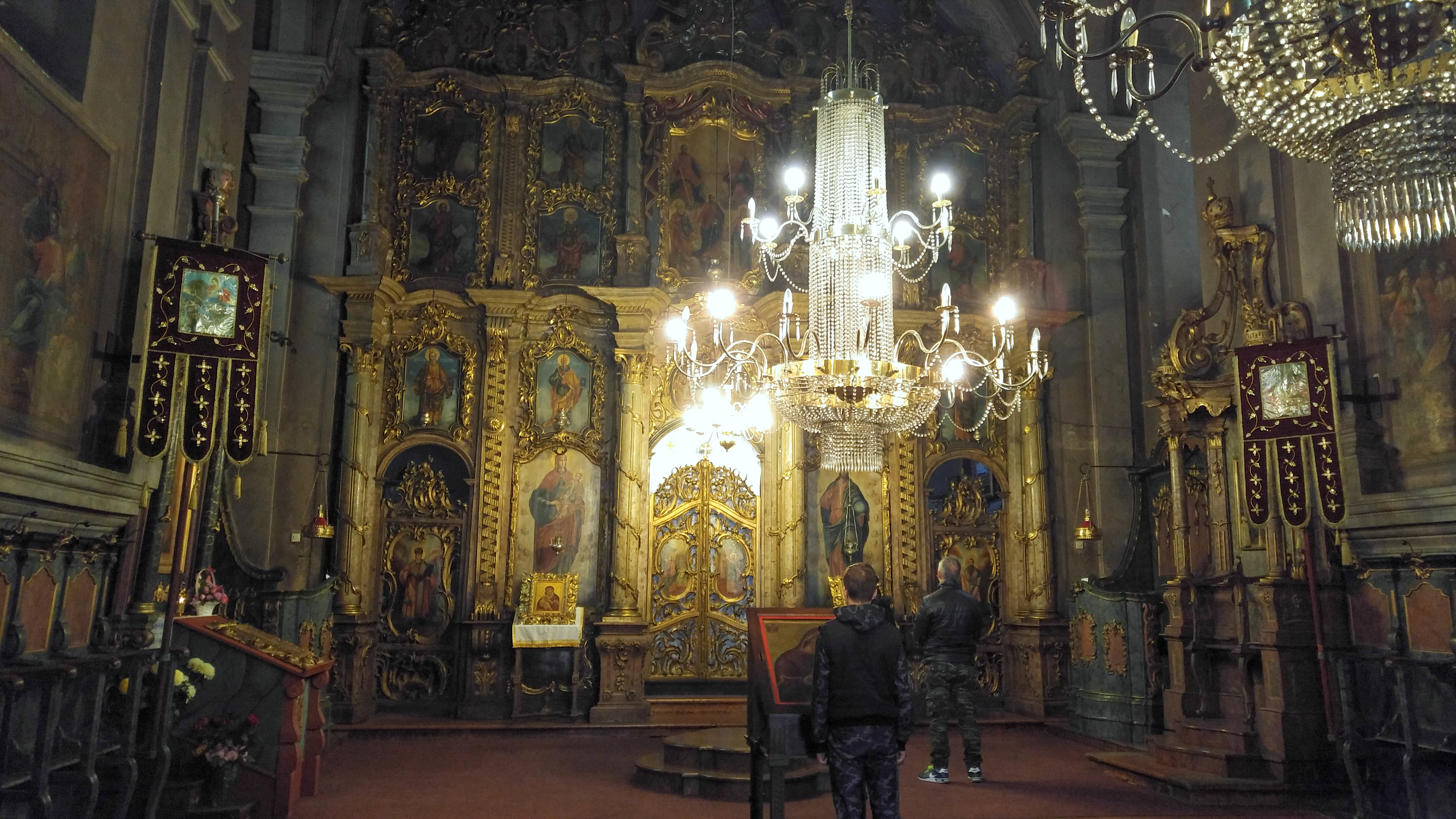 Iconostasis of the church of Holy Mother's Ascension in Novi Sad, Serbia